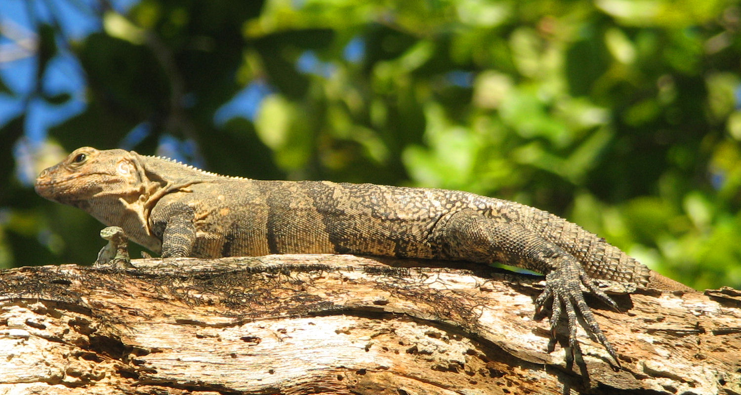 Black Ctenosaur (Ctenosaura similis) in tree in Manuel Antonio Park, Costa Rica